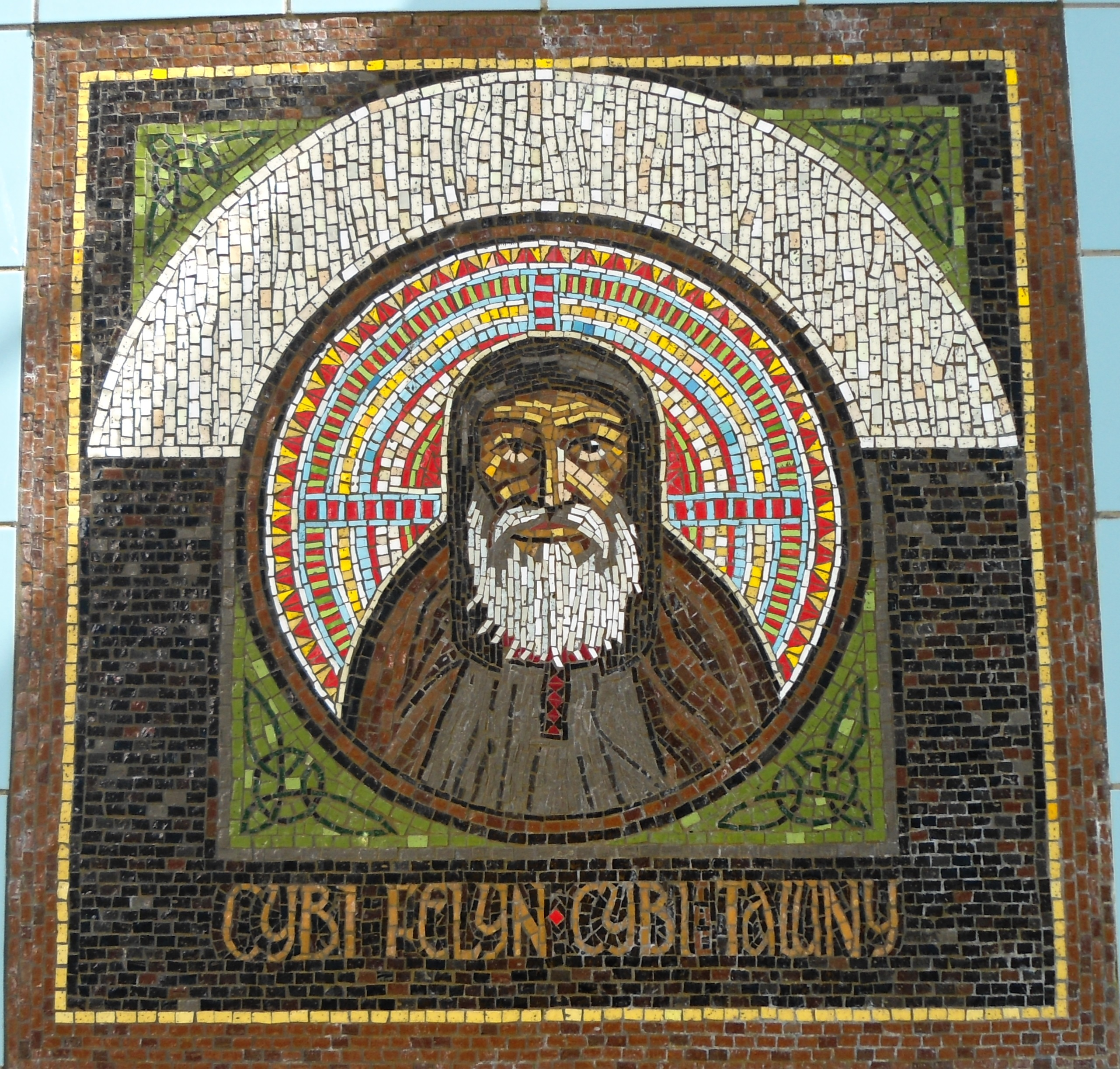 A mural of St. Cybi taken in Holyhead, Anglesey. Mosaic portrait of Saint Cybi by artist Gary Drostle created in 2006 made from Venetian Glass Smalti.